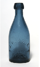 Pontiled soda or beer bottle excavated in New York City. The cobalt colored antique bottle is embossed "J.H Yale - Middletown, CT"